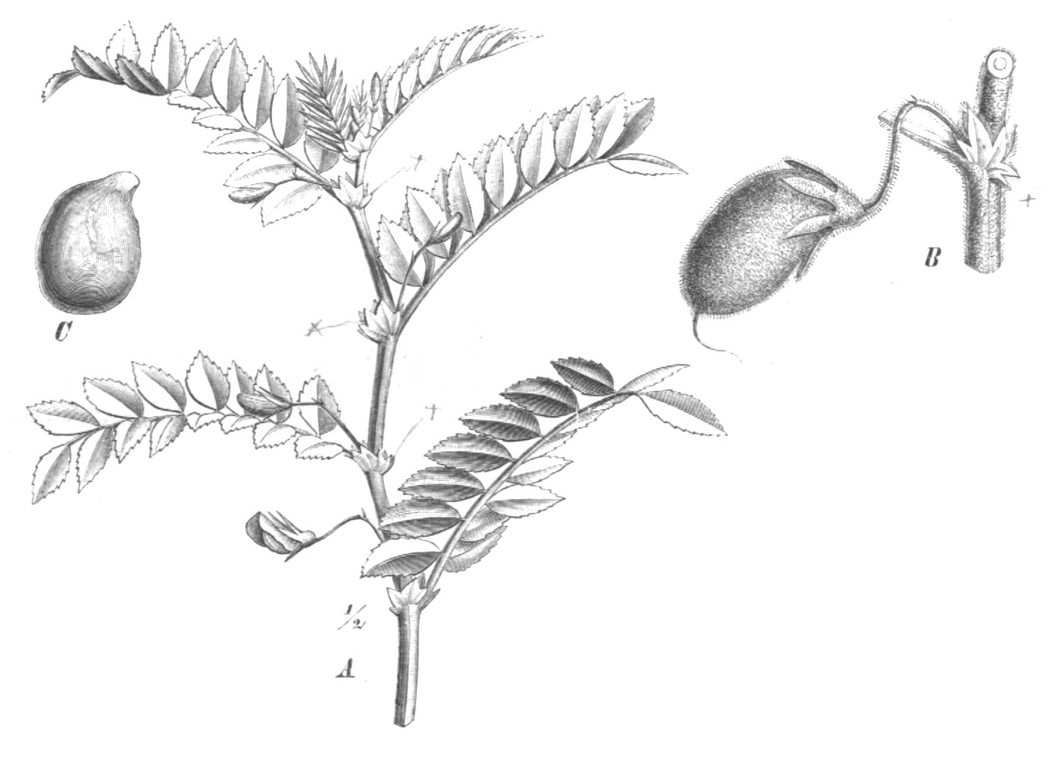 Chickpea (Cicer arietinum). Illustration from book